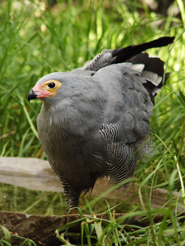 Gymogene (Polyboroides typus)